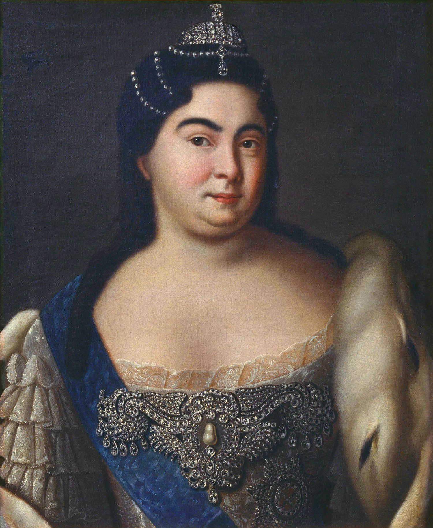 Catherine I of Russia